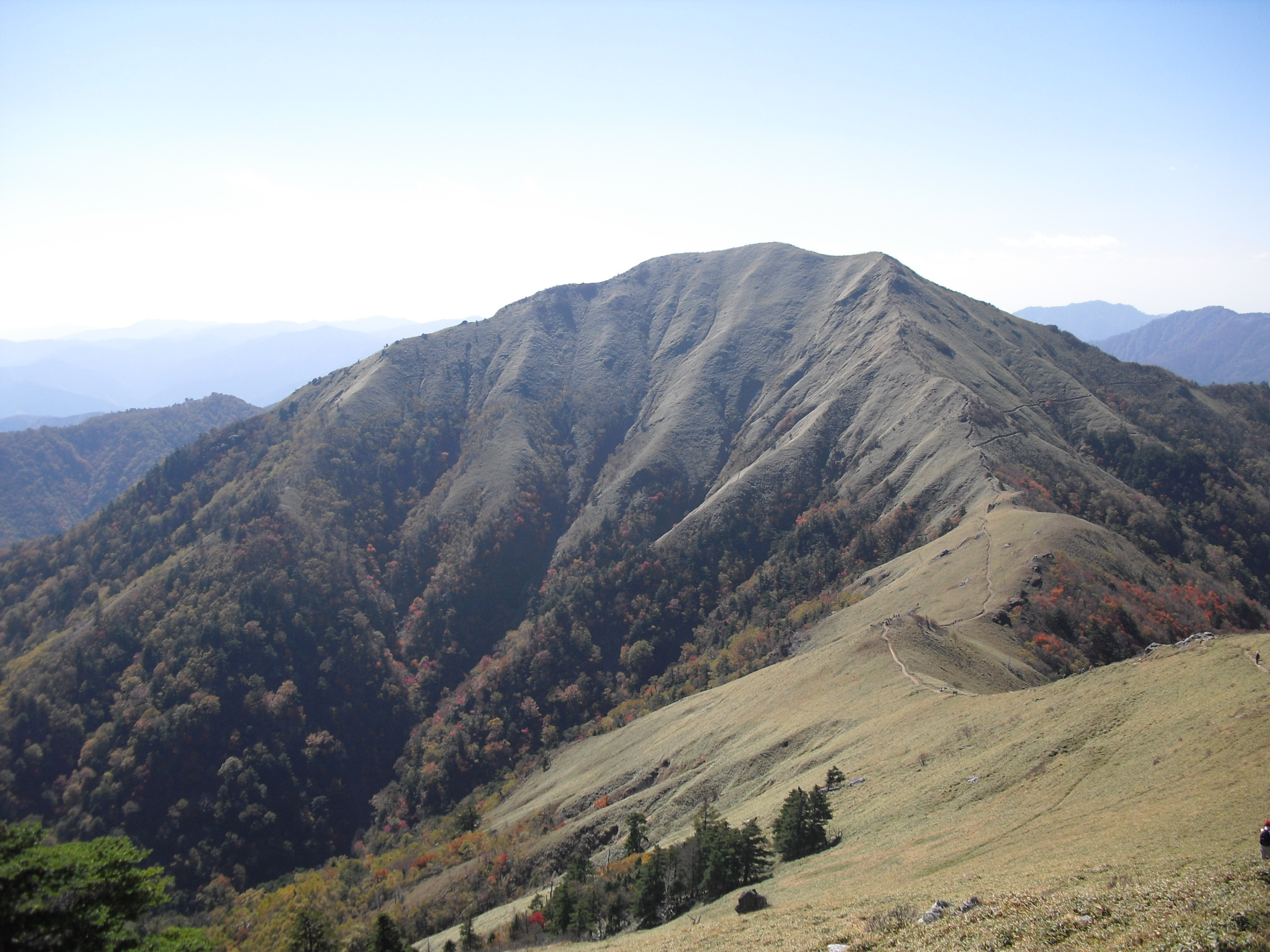 Mount Jirogyu